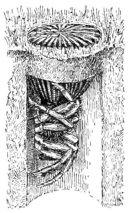 Cyclocosmia truncata closing her burrow with her abdomen